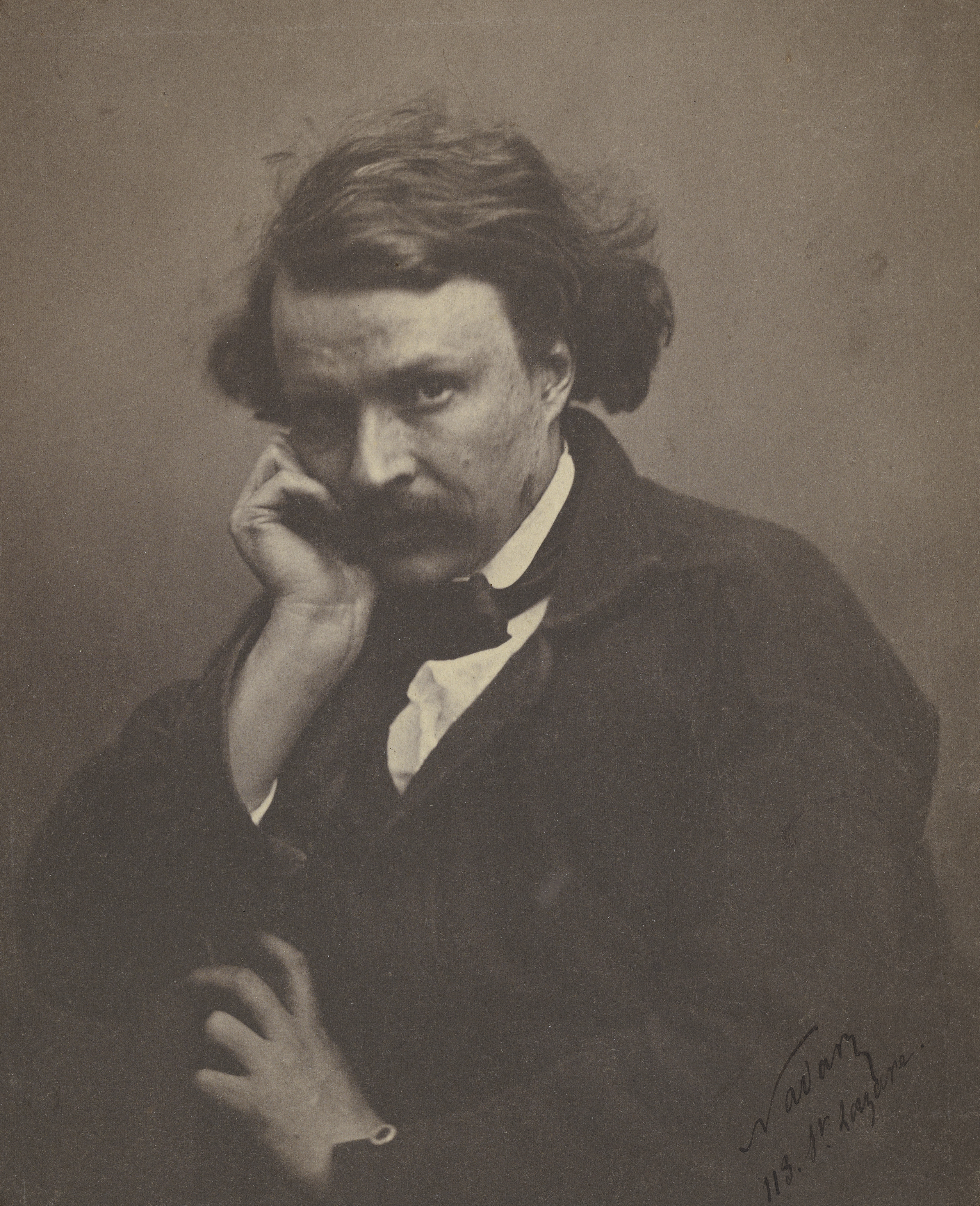 Nadar Self-Portrait